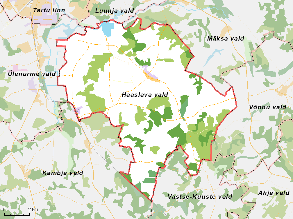 Map of municipality in Estonia